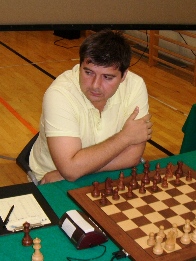 Grandmaster Spartak Vysochin playing in the Najdorf Memorial in Warsaw (Poland)